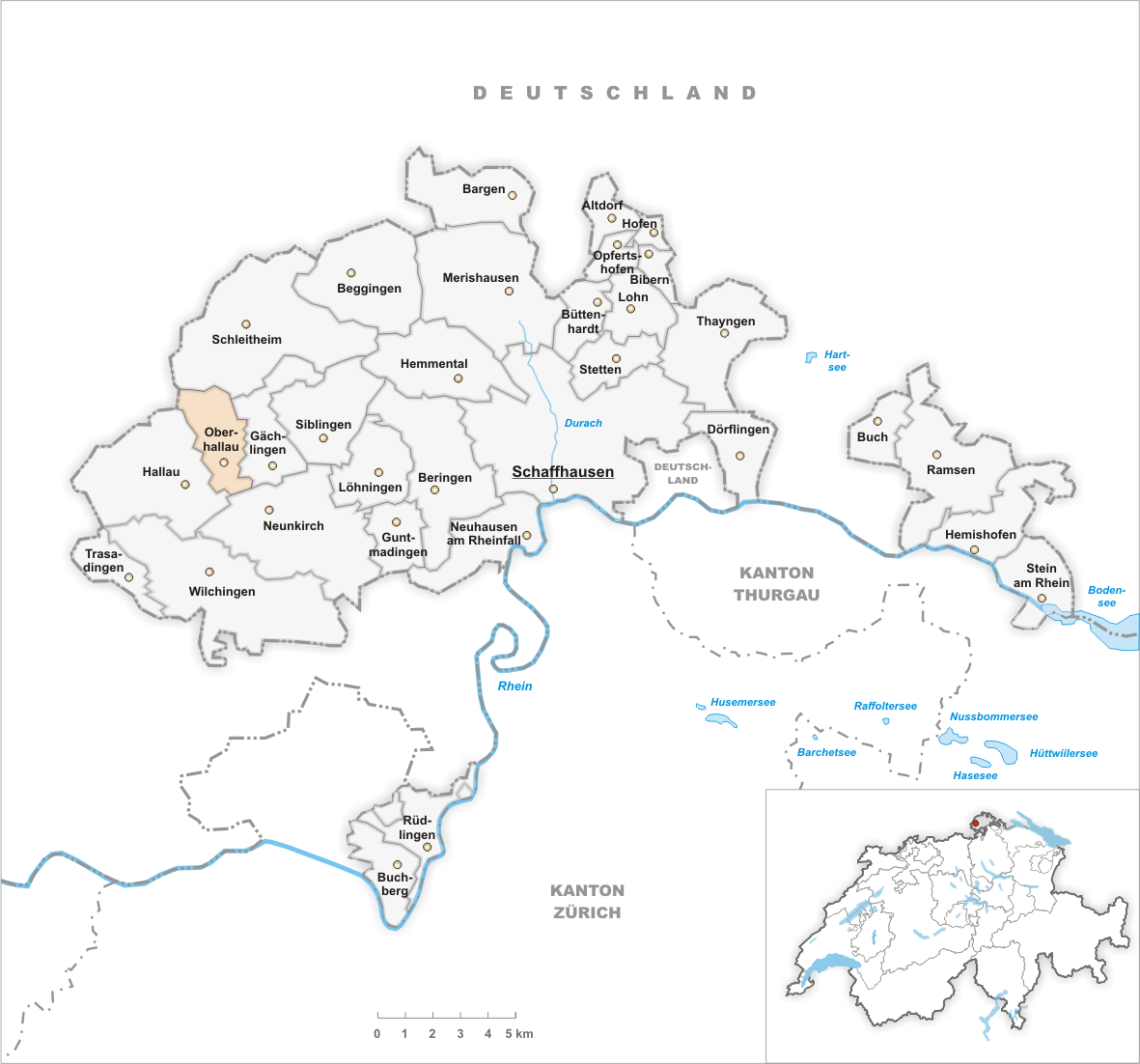 Municipality Oberhallau